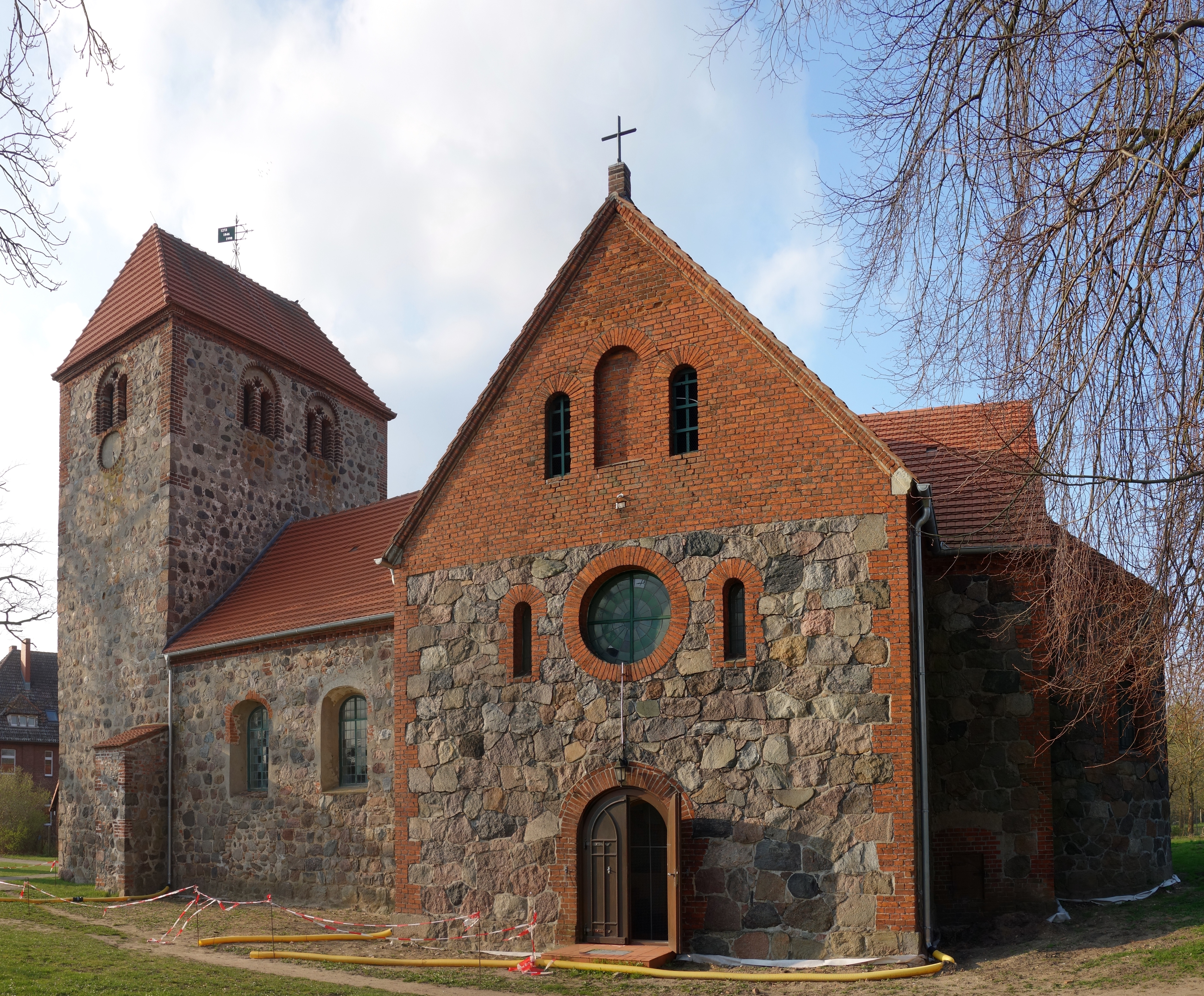 South-south-eastern view of church in Breddin municipality, Ostprignitz-Ruppin district, Brandenburg state, Germany